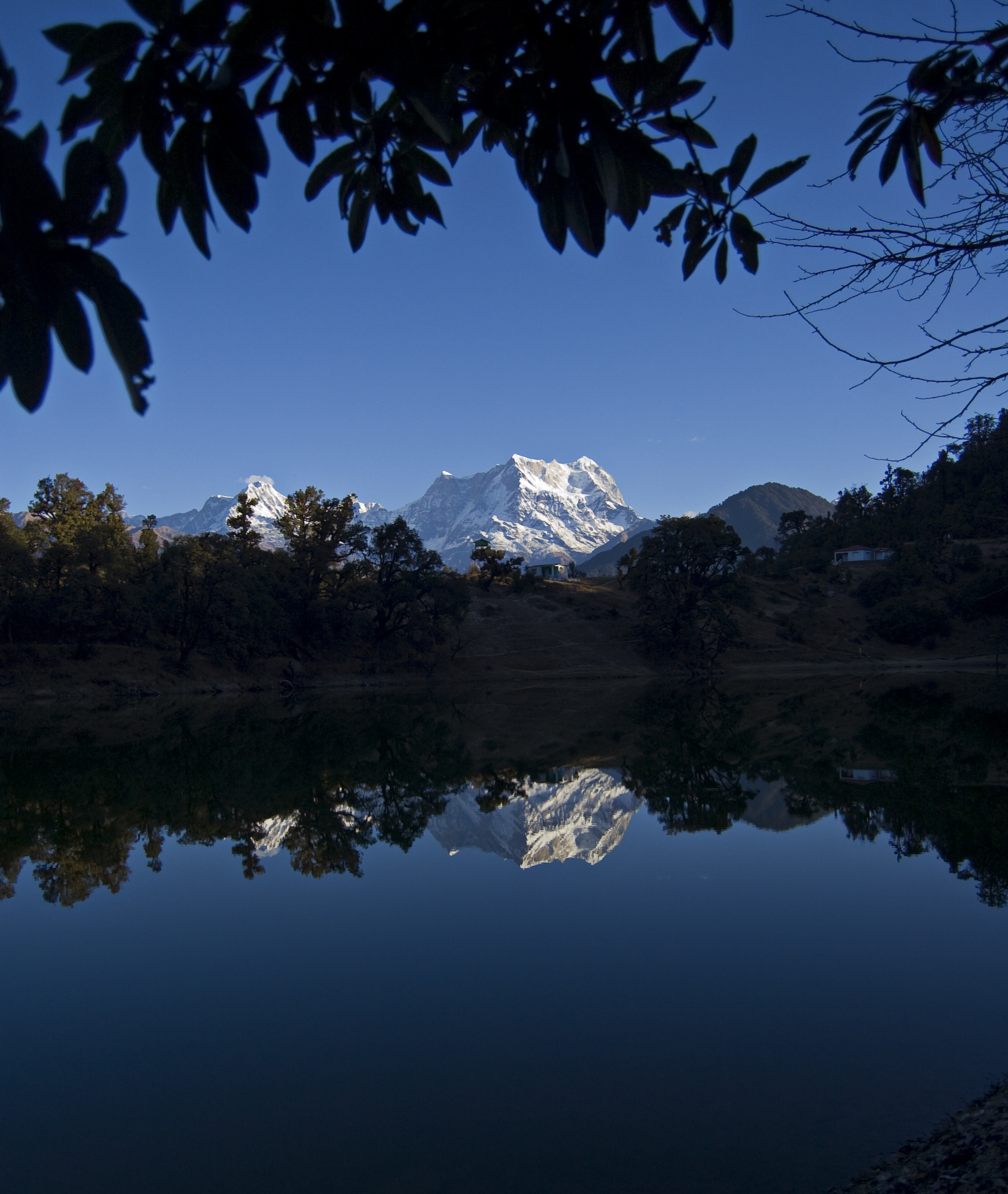 Reflection of Chaukamba Peak in Deoria Tal (Lake), as seen from Chandrashila peak.